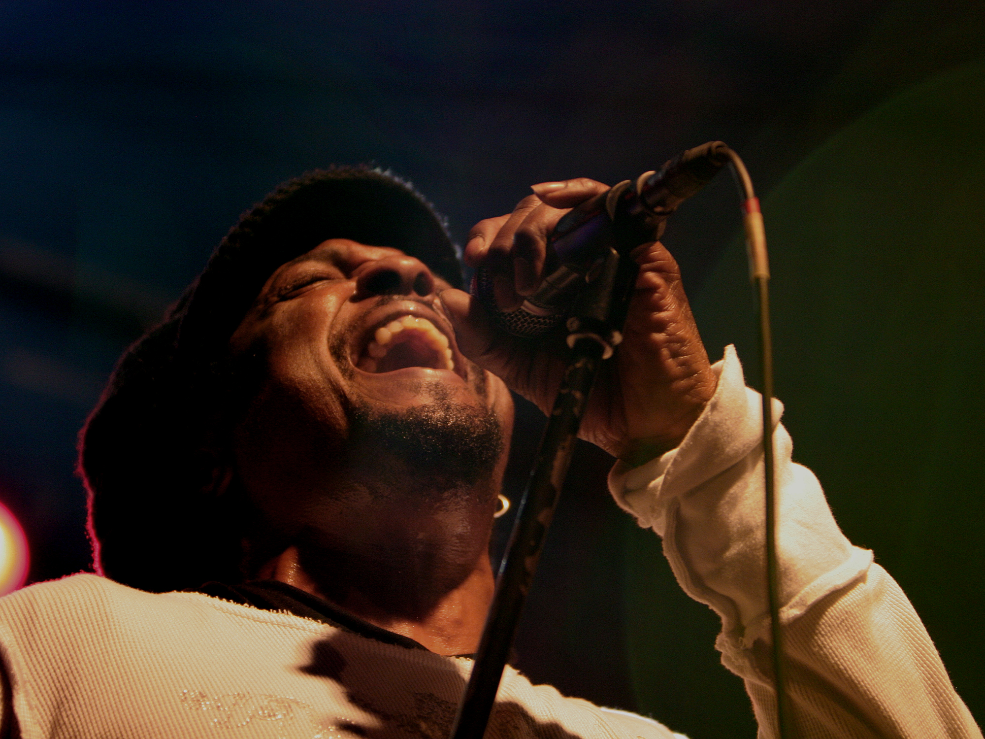 Bernard Fowler ( Background singer of Rolling Stones ) with his band BAD DOG Concert at Lindenpark in Potsdam, Germany on March 8th 2007.